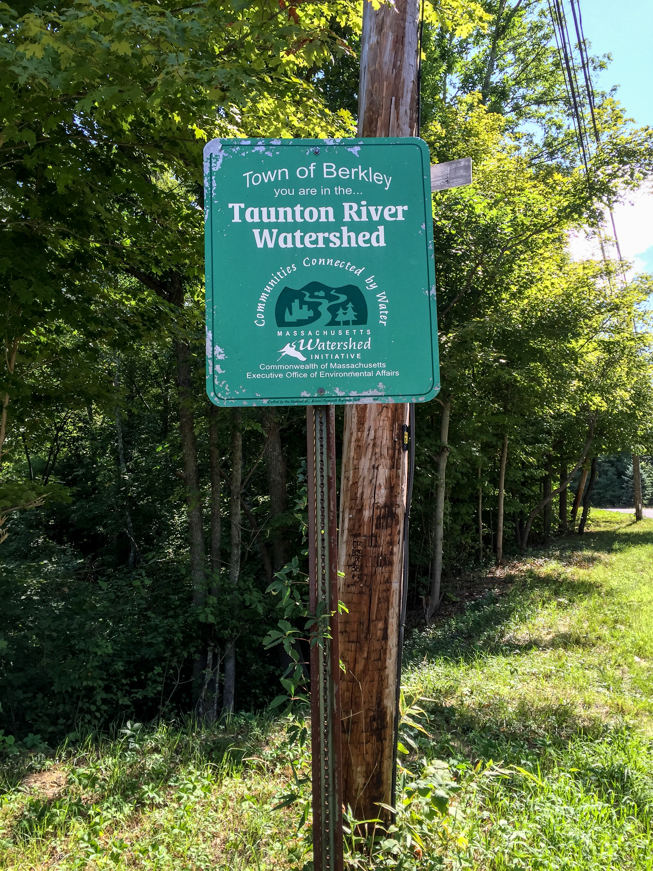 Sign in Berkley, MA notifies you: "You are in the Taunton River Watershed"